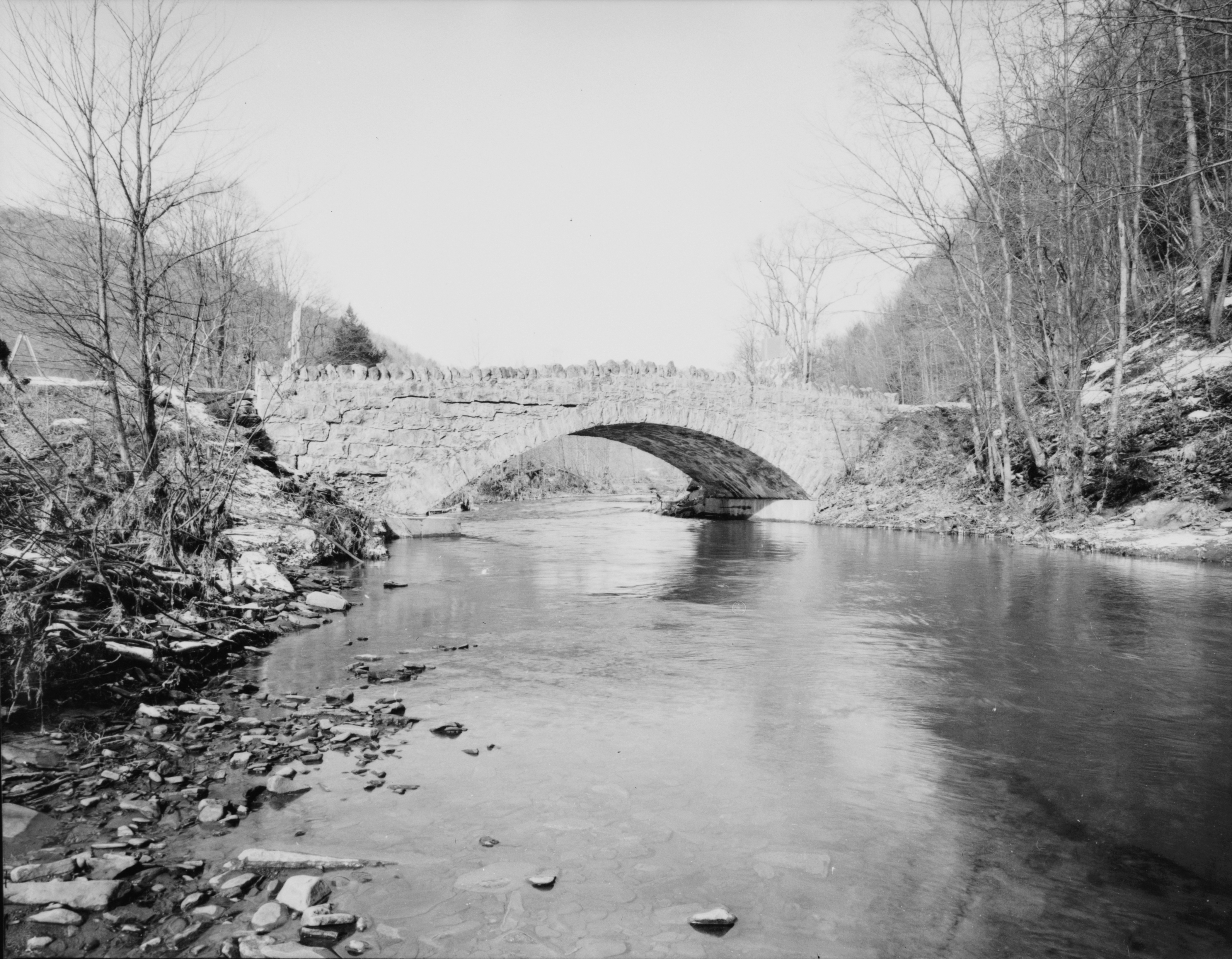 Plunketts Creek Bridge No. 3 over Plunketts Creek in Plunketts Creek Township between Barbours and Proctor, Lycoming County, Pennsylvania, USA. Original number was "HAER PA,41-BARB.V,1-1", original caption was "1. East elevation, looking north-northwest."